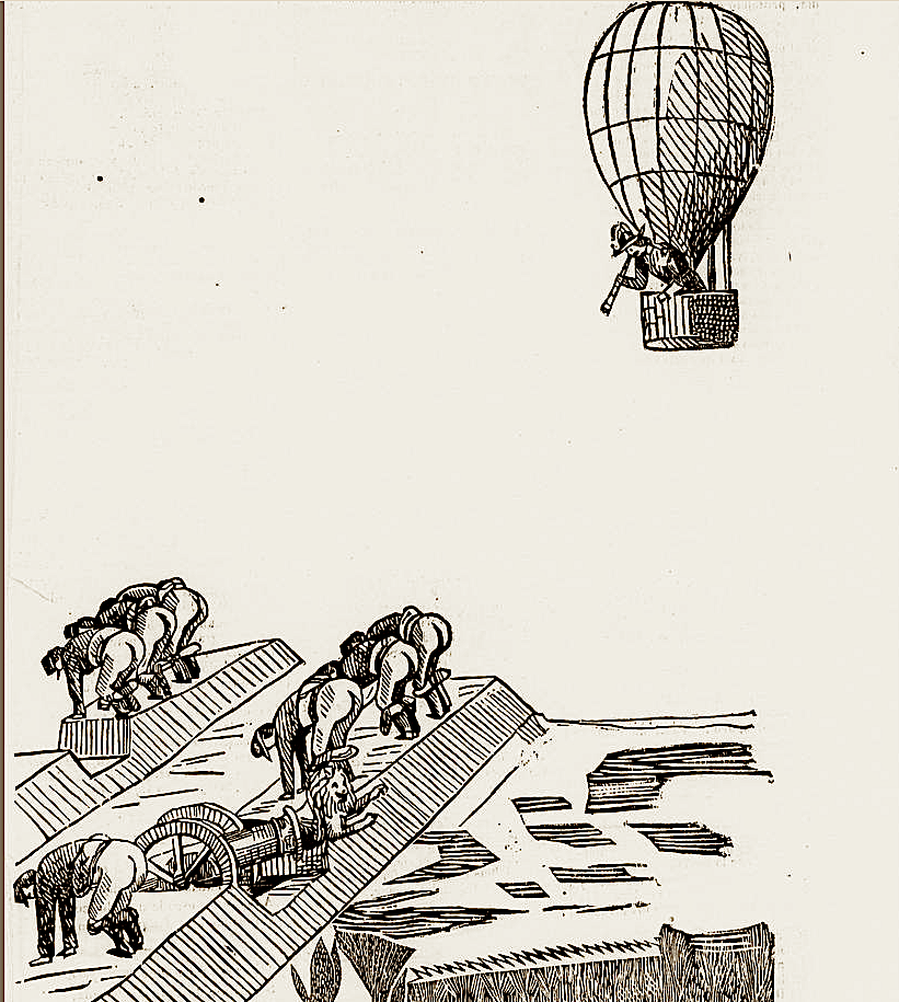 Paraguayan soldiers moon at the Brazilian observation balloon.